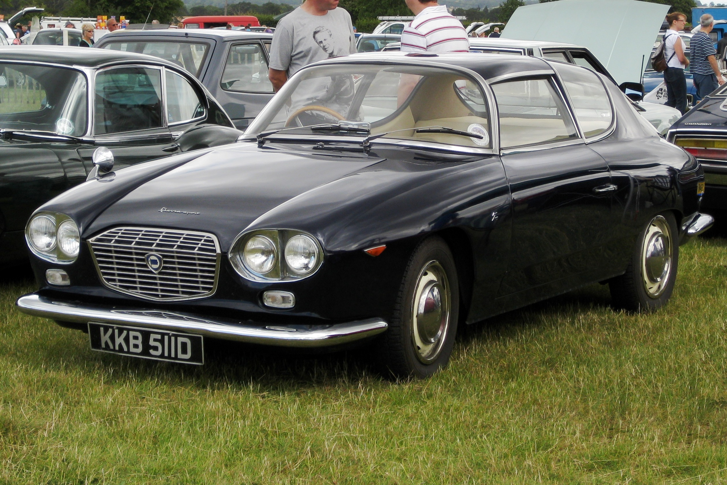 Lancia Flavia Zagato Coupe